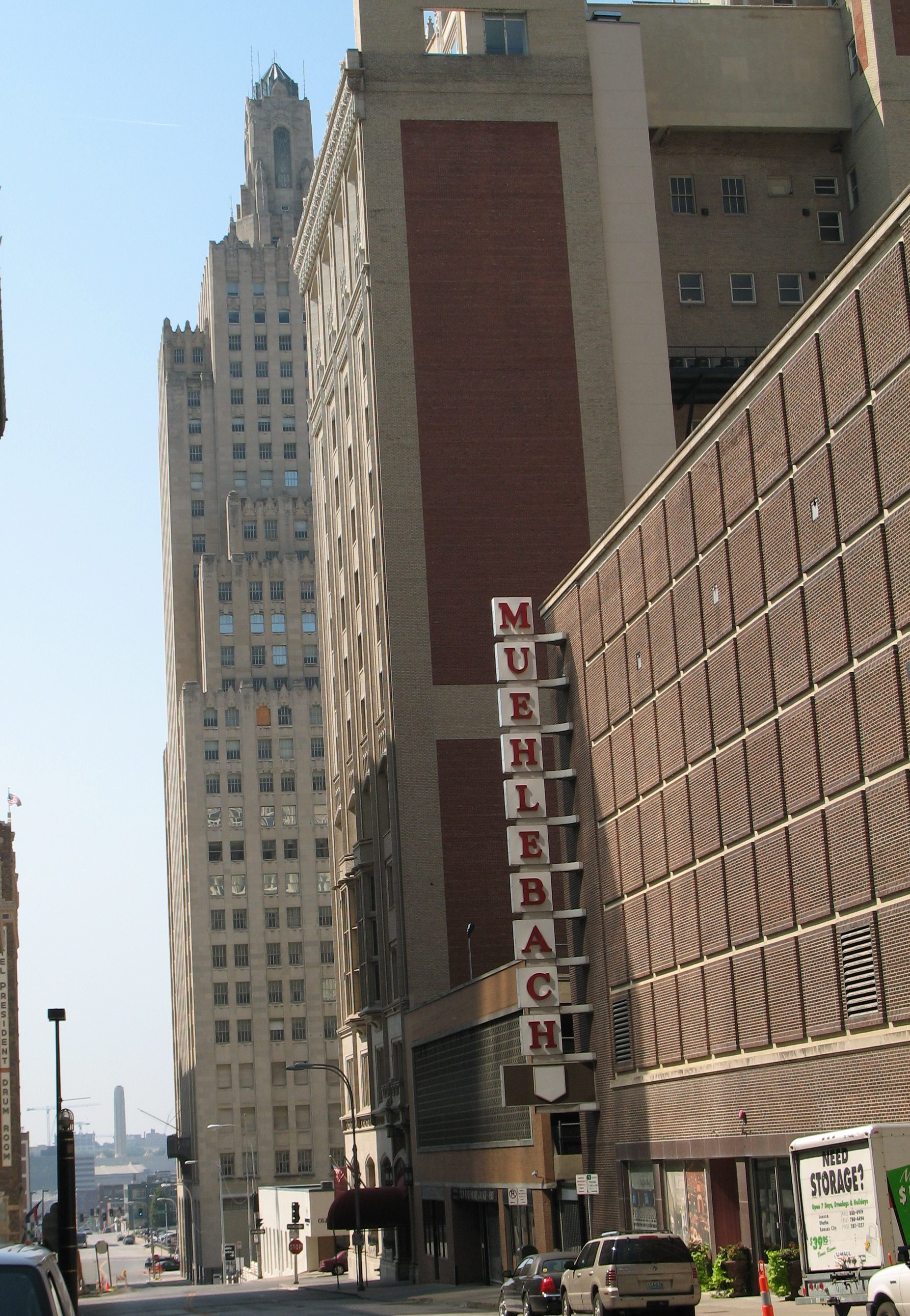 Muehlebach Hotel in Kansas City. Photo by poster in August 2006.